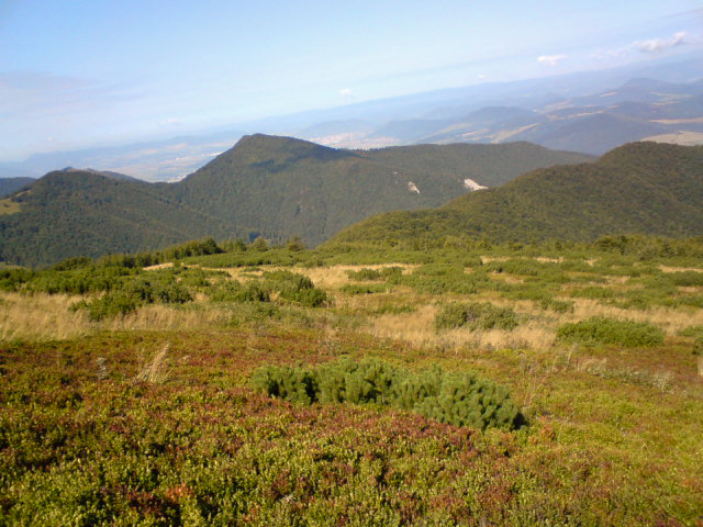 Malá Fatra—Lesser Fatra mountains, Slovakia: below 1400 m n.m., view to Belianska dolina. In front of me Bilberry growth (Vaccinium myrtillus). In my back hill Hole 1466 m n.m., in front hill Prostá 1 144 m n. m.